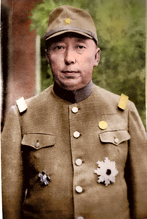 This is a colorized image of Prince De (Demchugdongrub), the leader of Mengjiang (Mengkukuo), a Japanese puppet state in China from during the Second World War. This picture used another photo hosted on Wikimedia Commons as a base (De Wang uniform.jpg). Since this area of China/Japan was taken over before 1945, the base falls under fair use, since the photo is from before 1941.